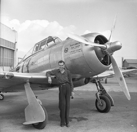 Repository: San Diego Air and Space Museum Archive